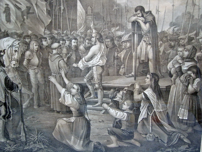 Greifensee (ZH) : Execution of Zurich defenders of Greifensee castle by old swiss republic maraudeurs during Old Zurich War in May 1444.